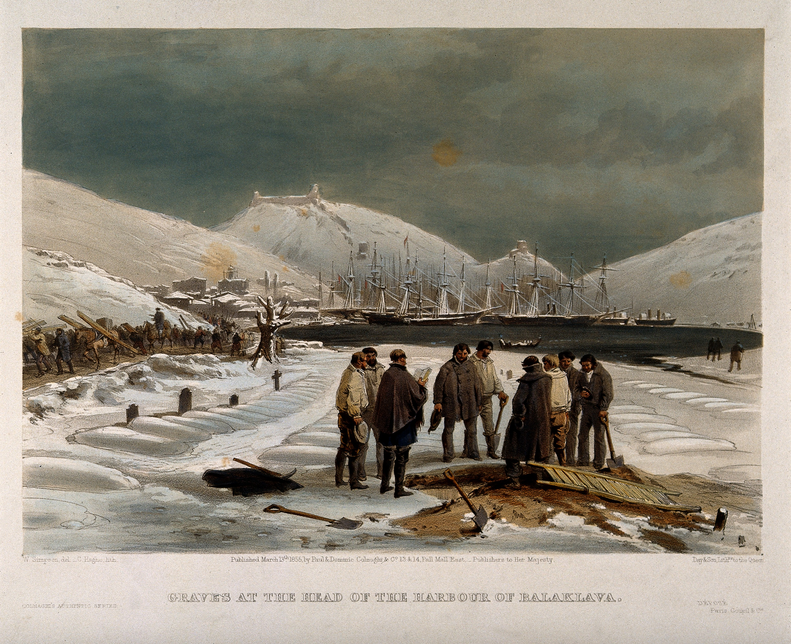 Crimean War, Balaklava: graves at the harbour. Coloured lithograph by C. Haghe, 1855, after W. Simpson. Iconographic Collections Keywords: Charles Haghe; William Simpson